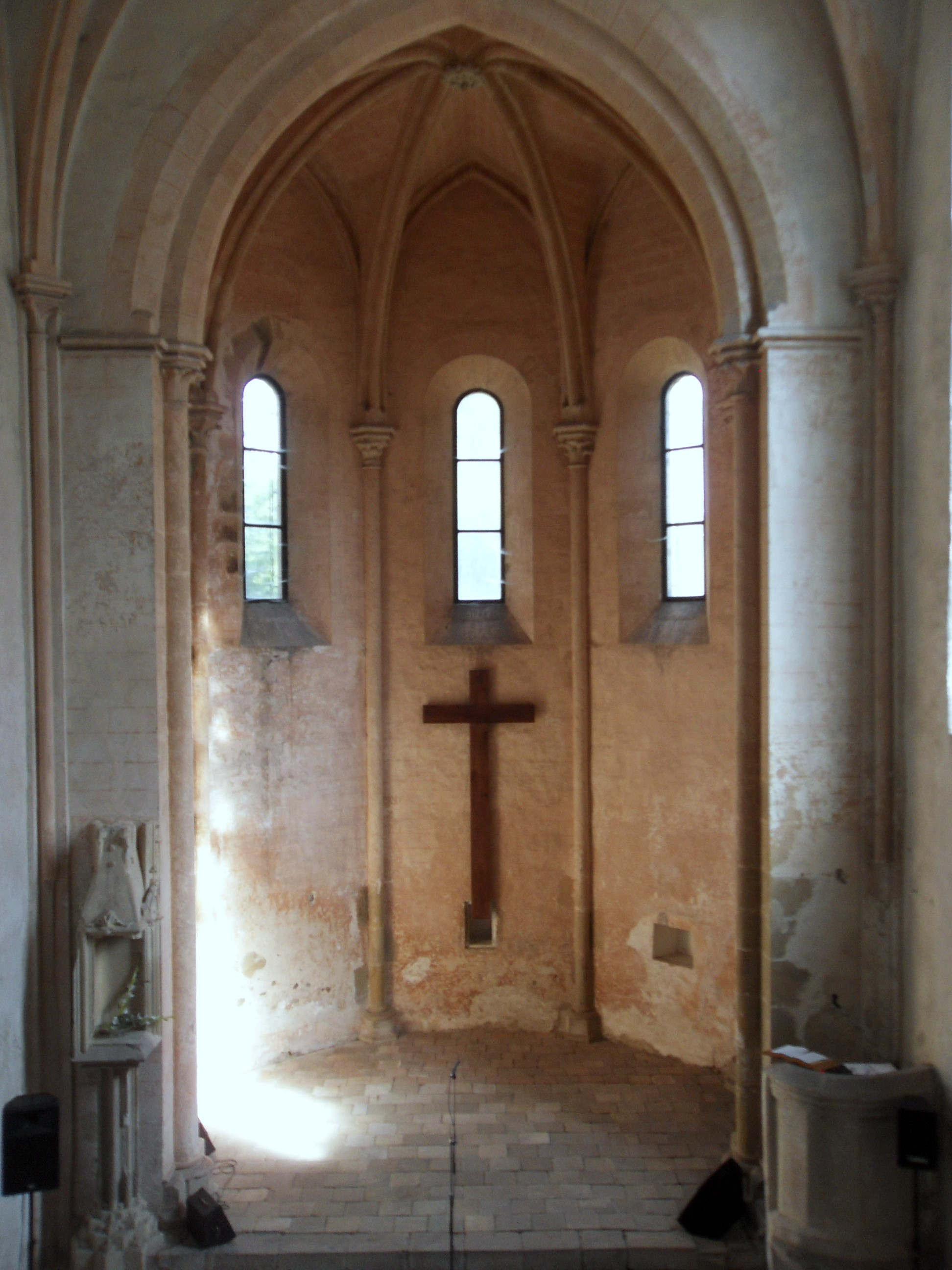 Chapel in Oslavany Chateau, Brno-venkov District, Czech Republic